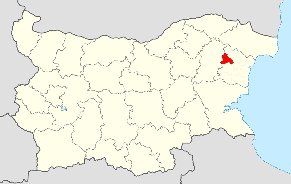 Location map of Vetrino Municipality within Varna Province, Bulgaria. Equirectangular projection, N/S stretching 130 %. Geographic limits of the map: N: 44.4° N S: 41.1° N W: 22.1° E E: 28.9° E